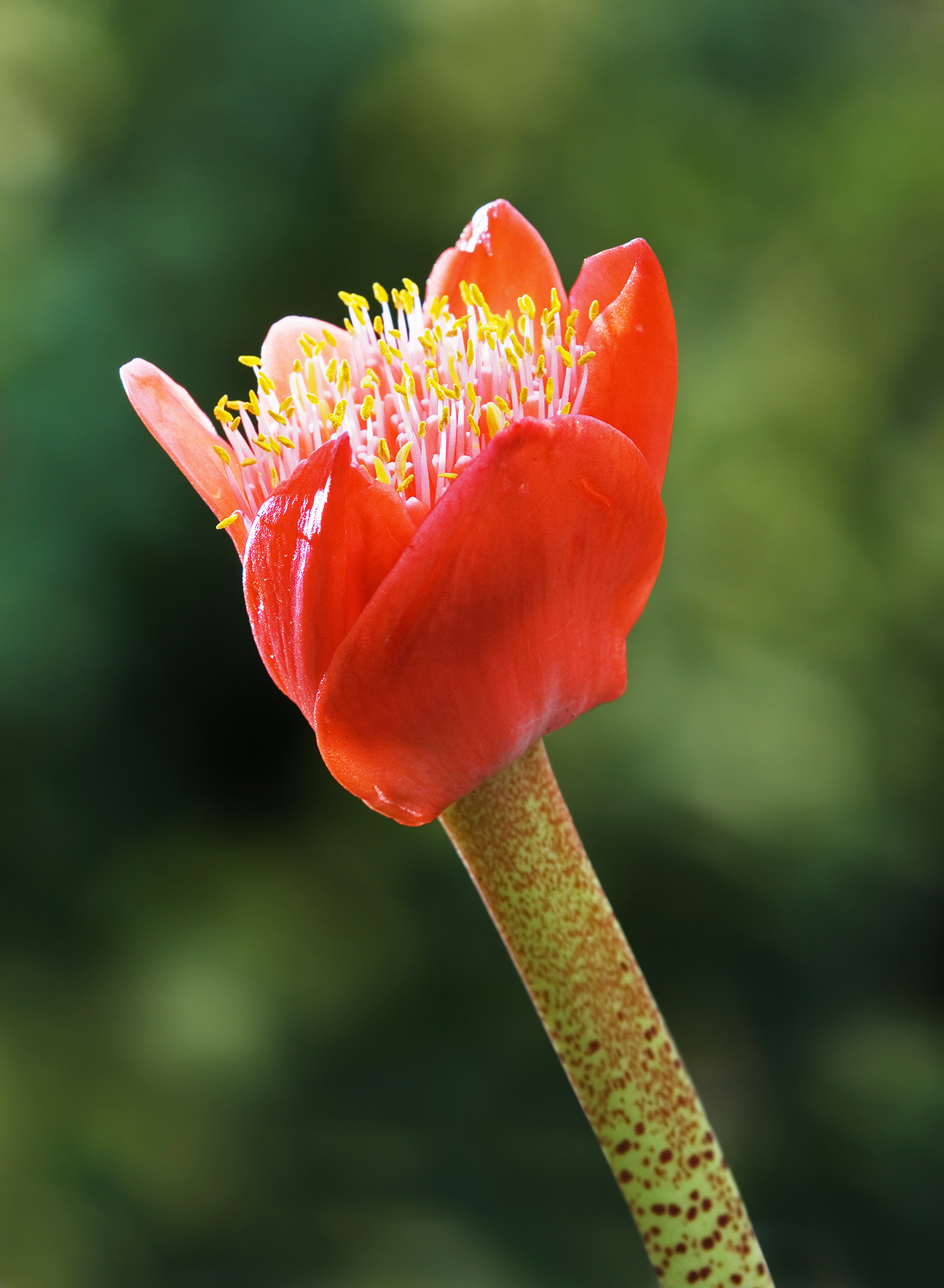 Haemanthus coccineus Camera data Camera Canon EOS 400D Lens Canon EF 70-200mm f4L w/ 12mm extension tube Flash Snooted rear left Focal length 188 mm Aperture f/8 Exposure time 1/25 s Sensivity ISO 100